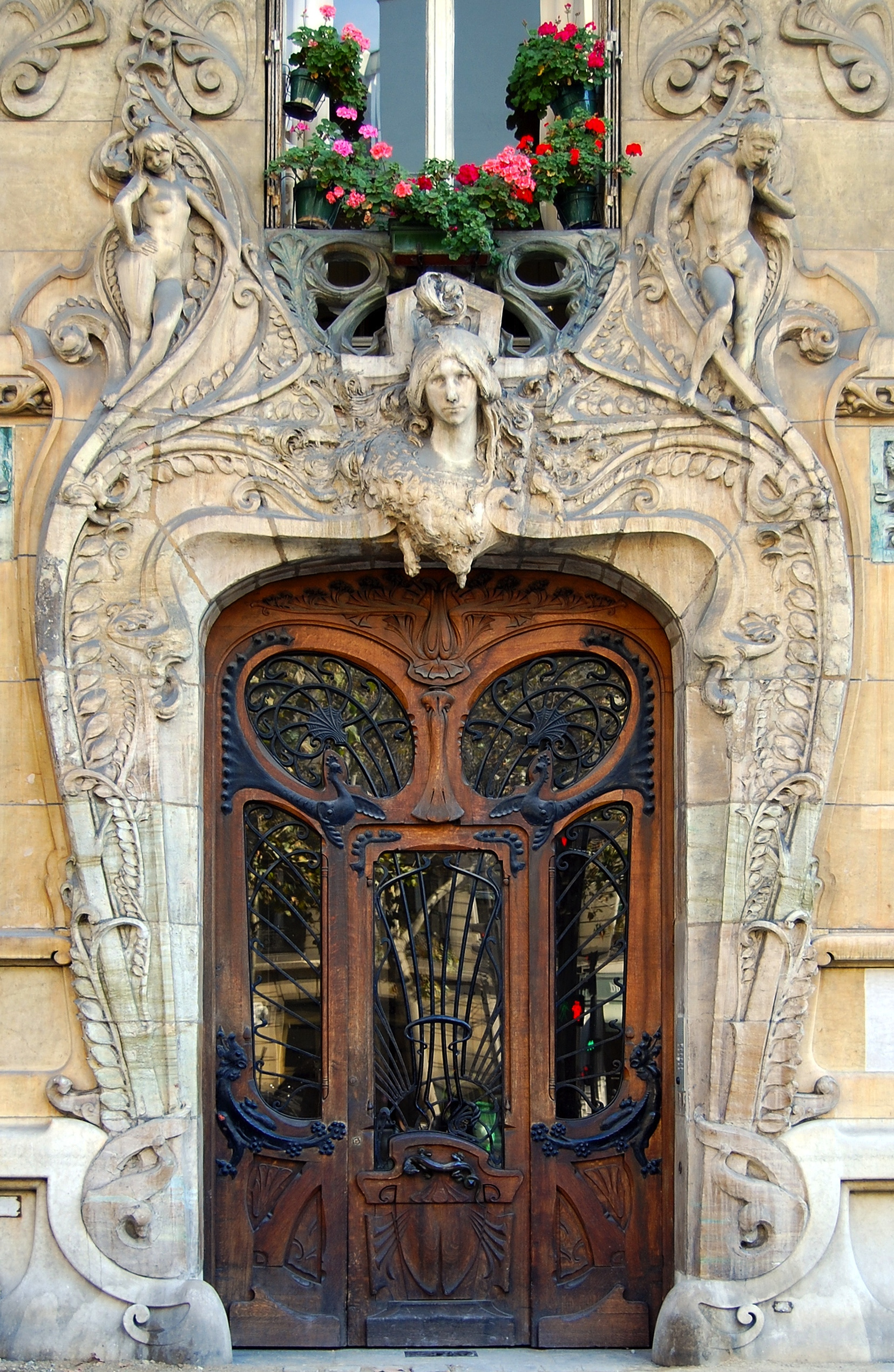 Door of the Art Nouveau Building from the architect Jules Lavirotte, 29 avenue Rapp, Paris 7th district, France. Sculptures by Jean-François Larrivé (1875-1928).